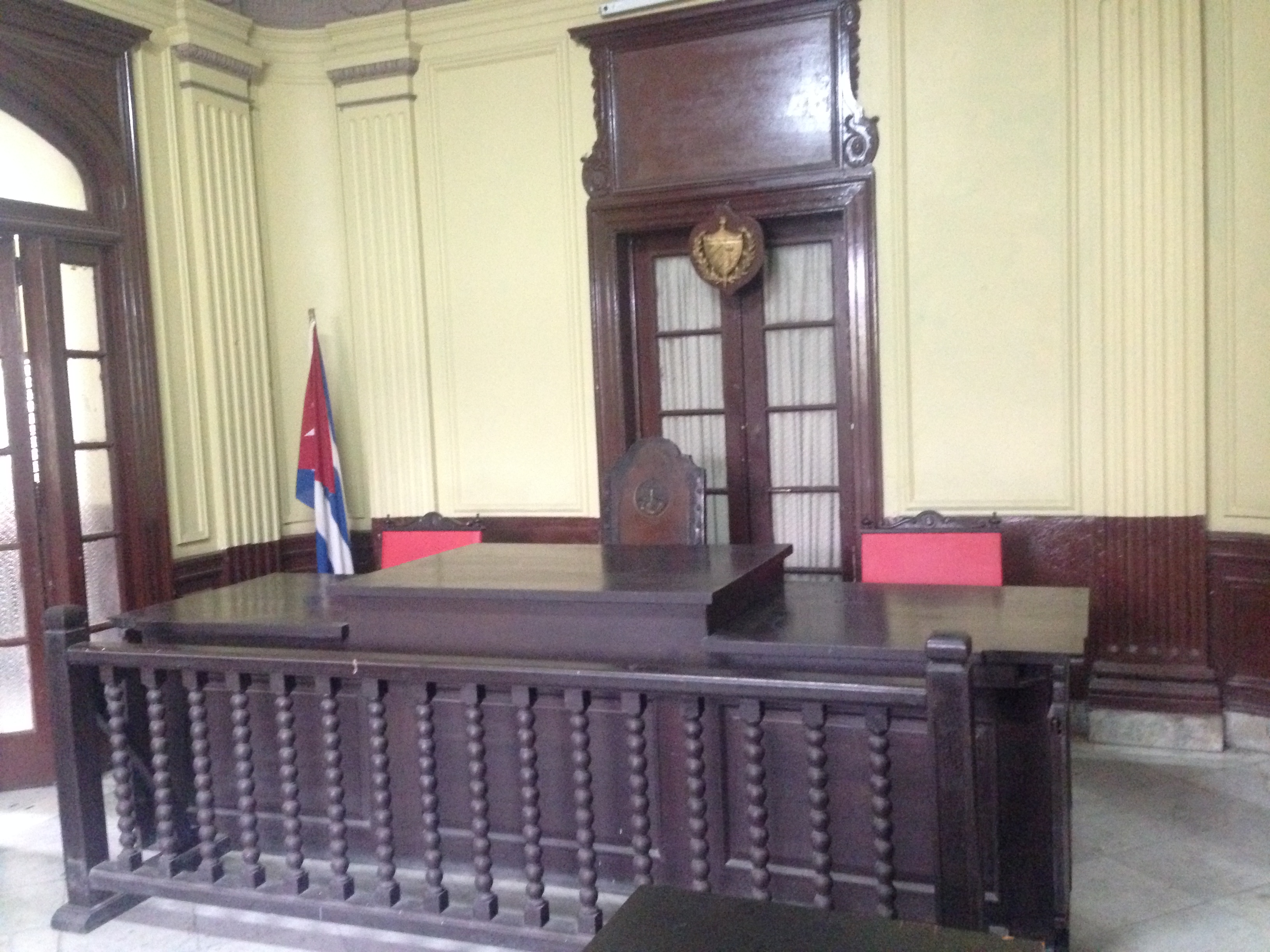 Courtroom on the first floor of the Tribunal Municipal Popular 10 de Octubre in Havana, Cuba